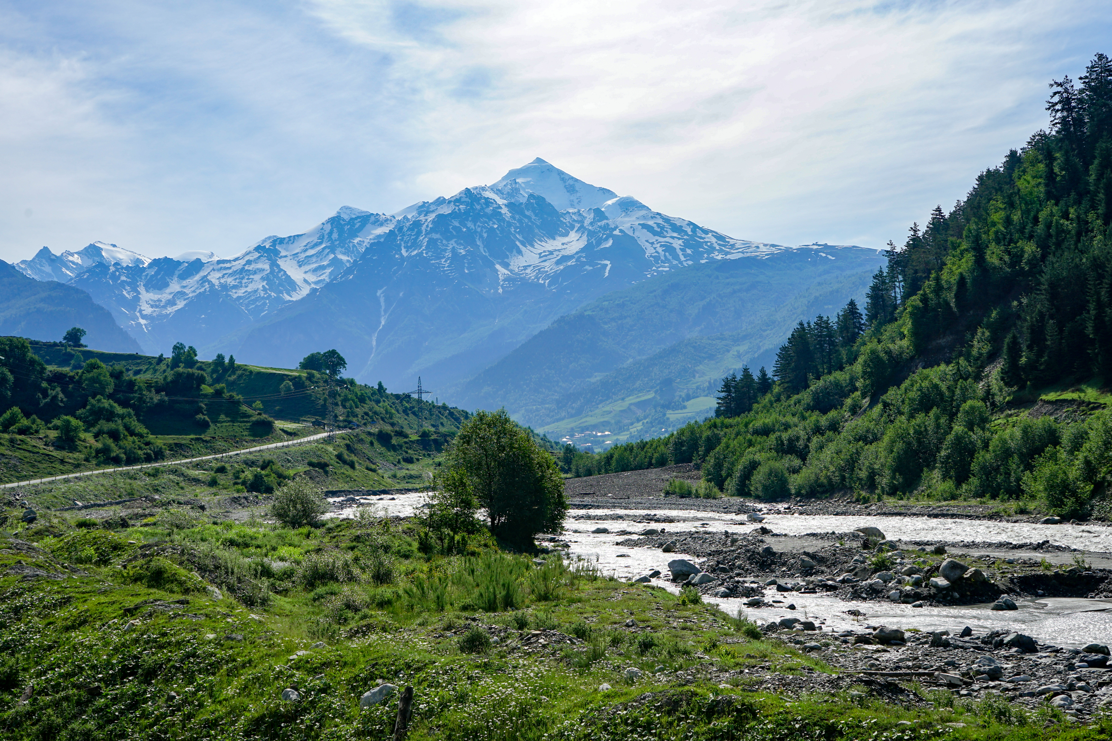 Mount Tetnuldi (4,852 m) and Mulkhra River (view from the vicinity of Zhamushi Village), Svaneti, Georgia